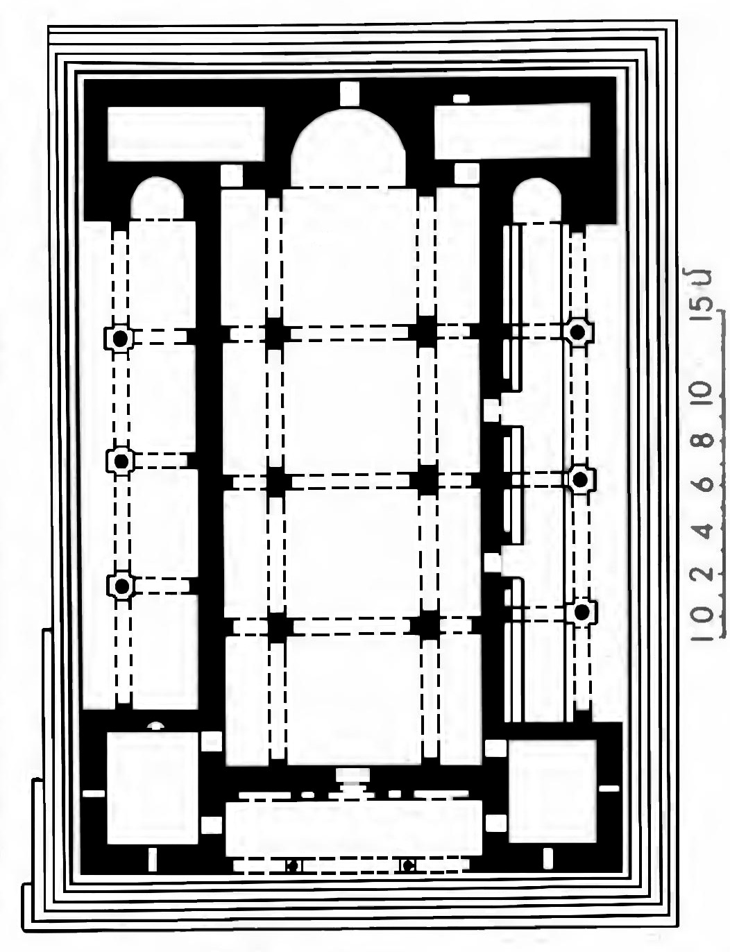 Plan of Yereruyq bazilik